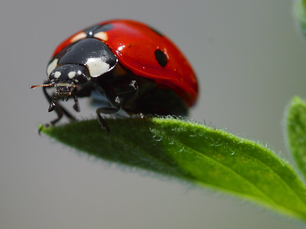 A ladybug standing on a leaf. Photograph taken with a Canon D60 camera